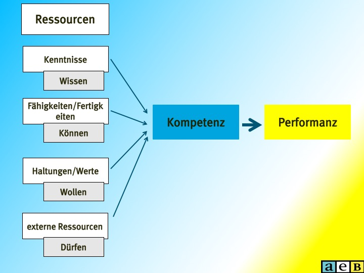 resources - competence - performance